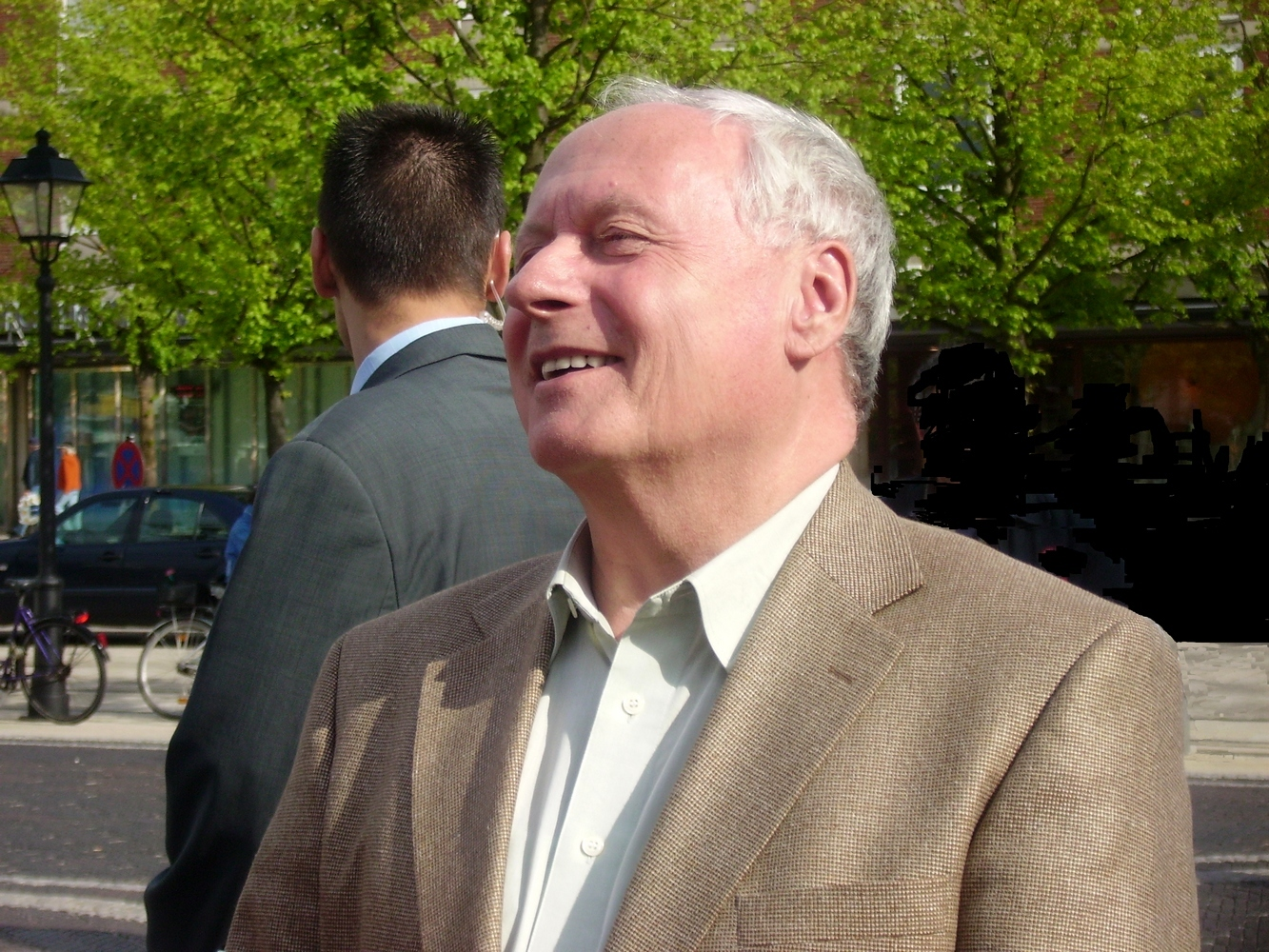 The German politician Oskar Lafontaine, now chairman of the party "The Left", at an election rally on 10 May 2007